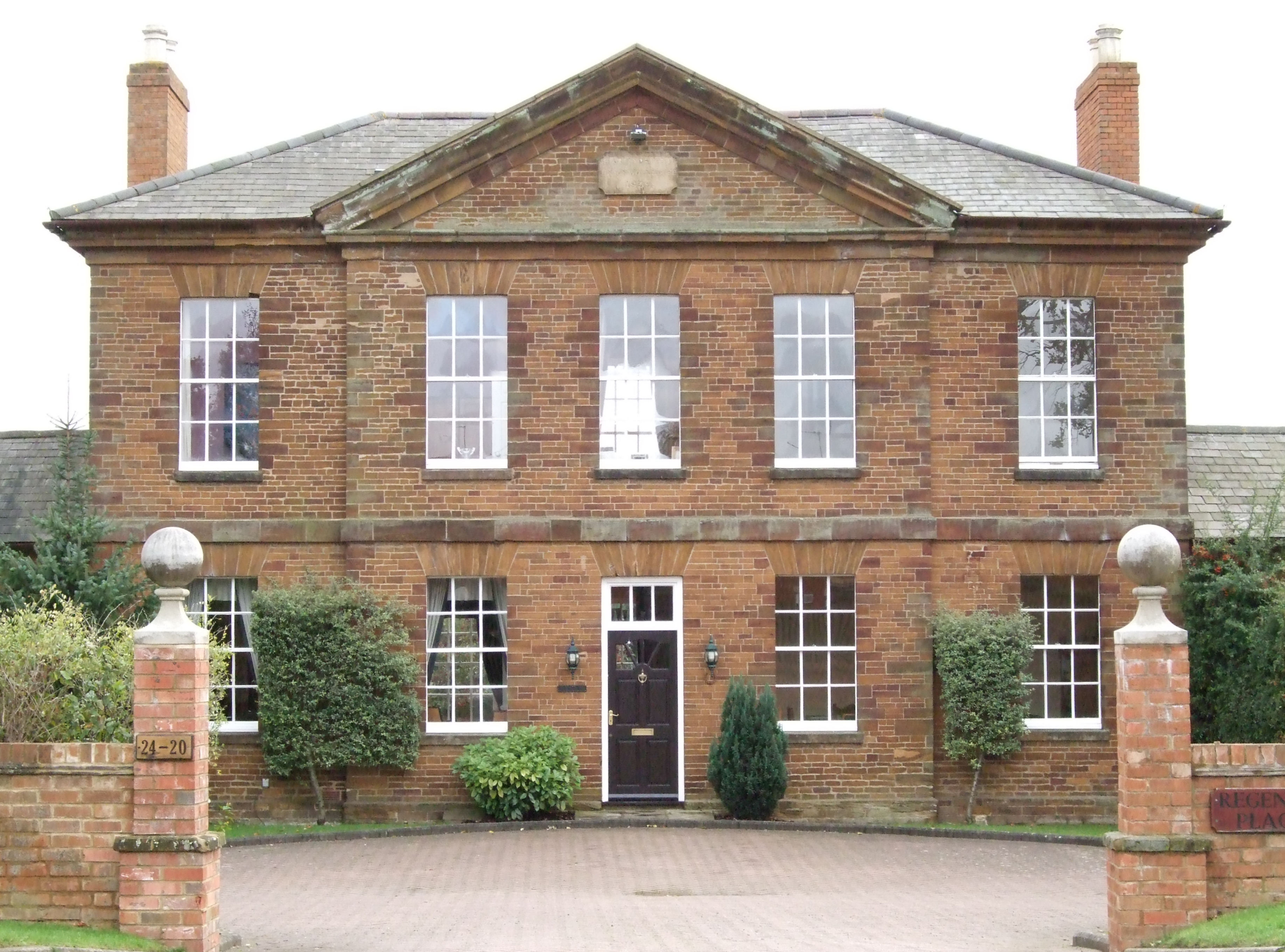 The former Northamptonshire Regiment's and Royal Pioneer Corps' "Simpson Barracks" at the former Hardingstone Workhouse building, now new housing called Regency Place, Wootton, Northamptonshire.